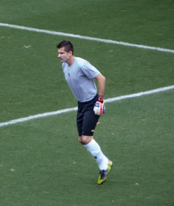 Football goalkeeper Victor playing for Atlético Mineiro in 2012.